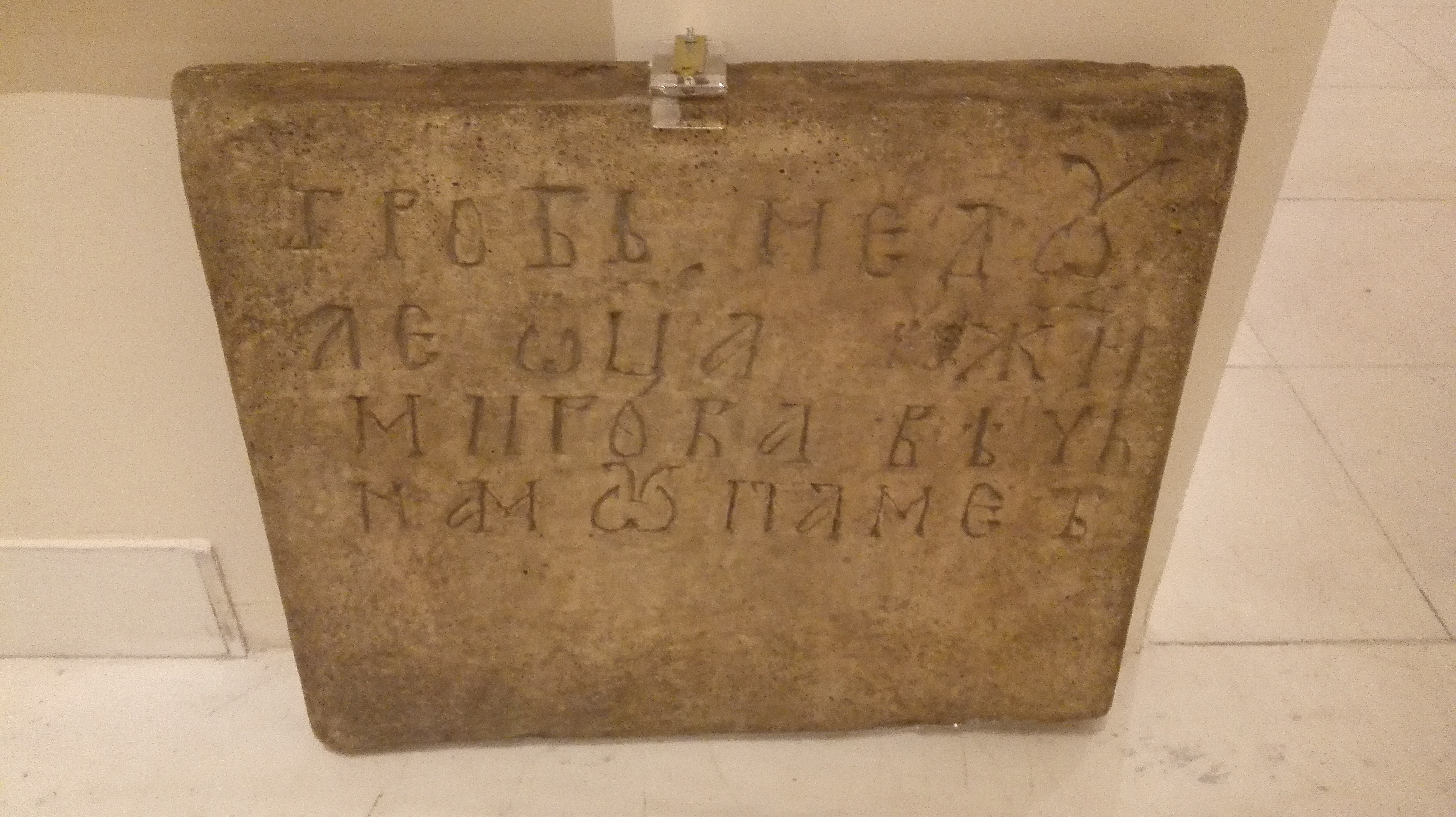 Inscription on the tombstone of Medul, Ježdimir's father. Church of the Virgin of Hvosno, 14th century, copy. Cast by Stoiša Veselinović, 1971. Gallery of Frescoes of the National Museum in Belgrade